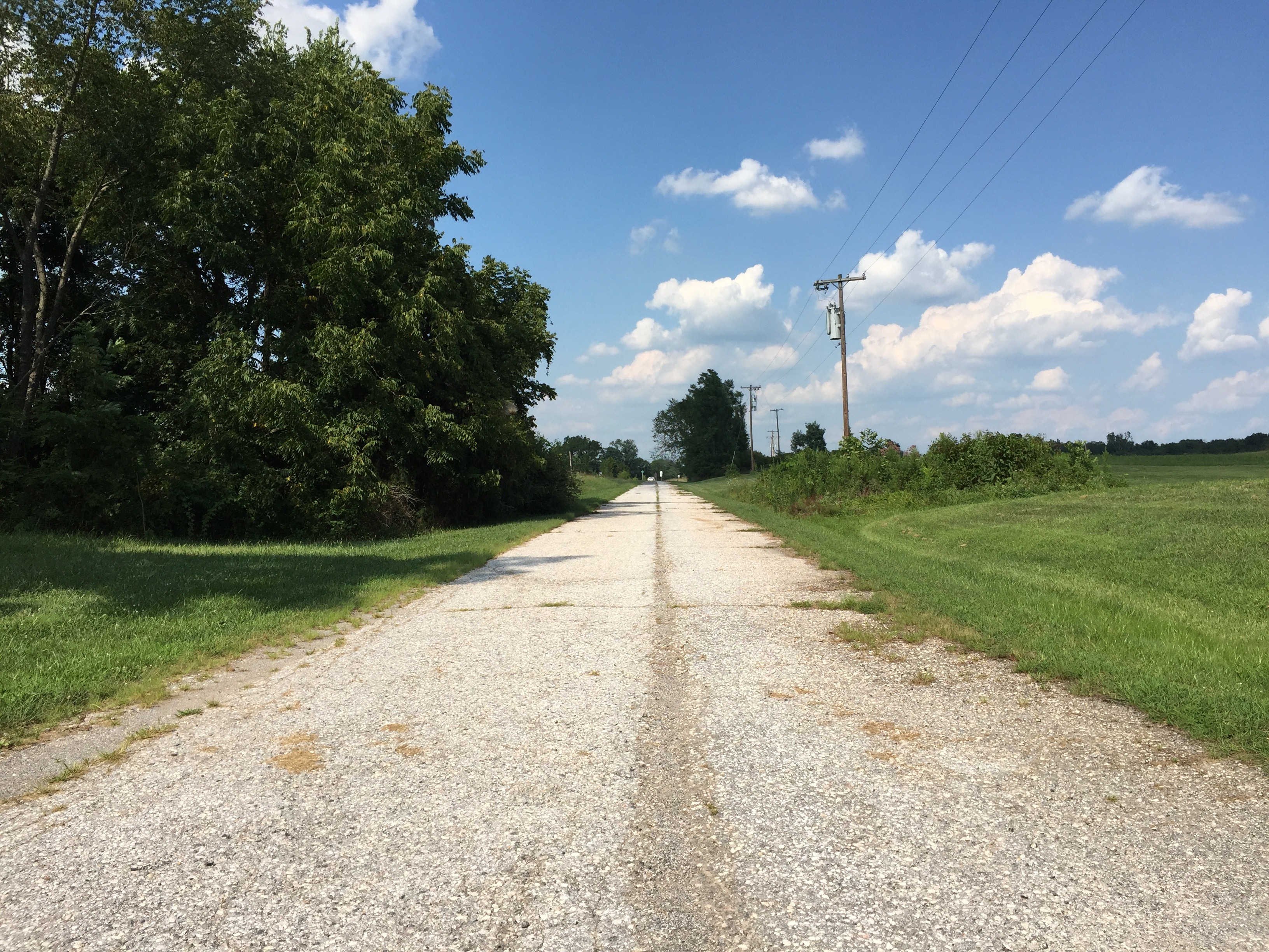 View north along Maryland State Route 853 (Old Francis Scott Key Highway) between Angell Road and Brown Road north of Taneytown in Carroll County, Maryland